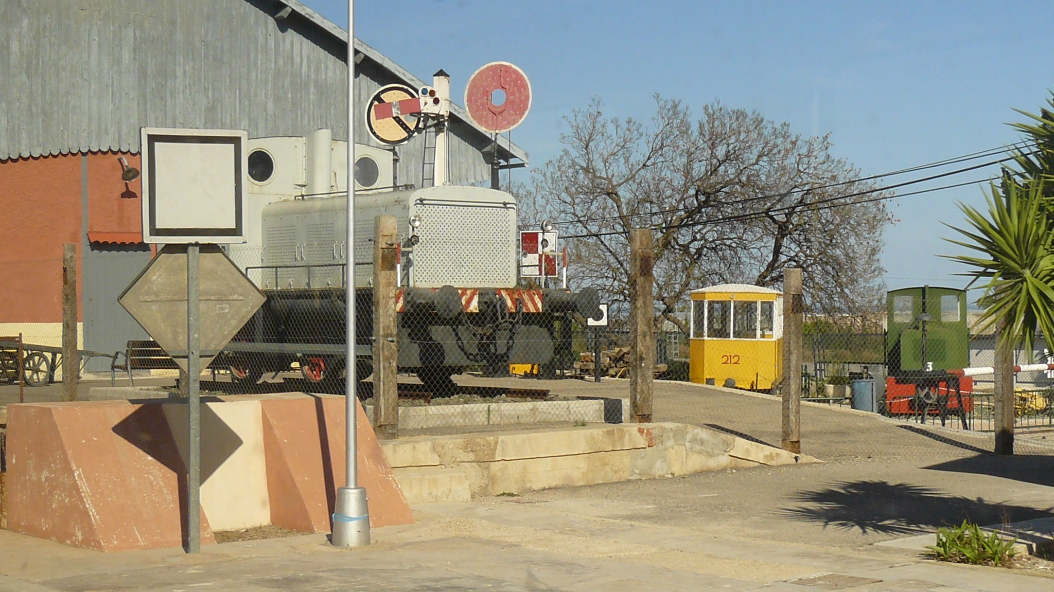 Torrellano Rail Museum (Alicante). Spain. Locomotive whit Deutz motor.